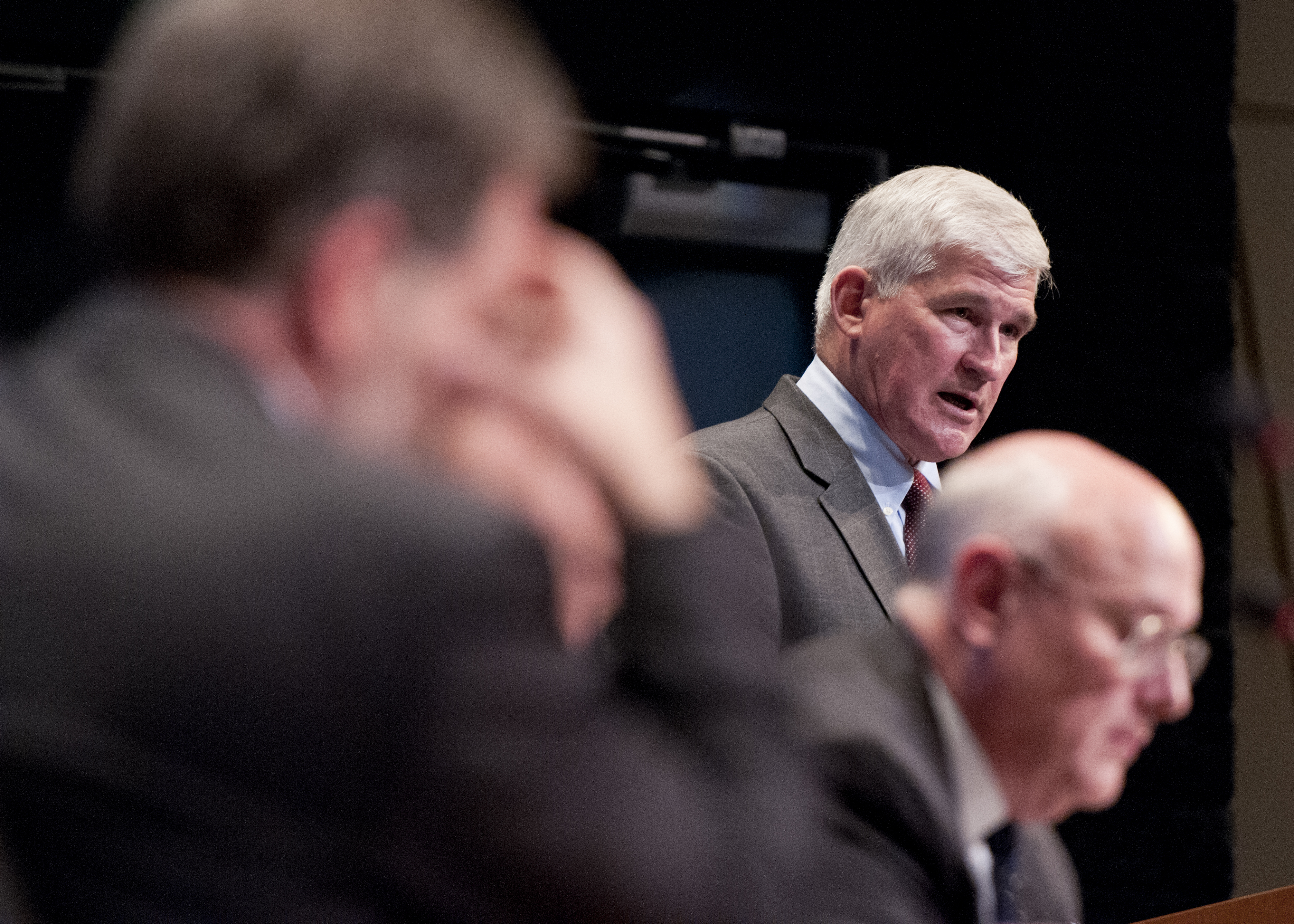 120612-N-LE393-170 NEWPORT, R.I. (June 12, 2012) Andrew Bacevich, from Boston University, speaks during a panel discussion that was part of the 2012 Current Strategy Forum at the U.S. Naval War College. This year’s forum explores global trends and the implications they have on national policy and maritime forces. (U.S. Navy photo by Mass Communication Specialist 2nd Class Eric Dietrich/Released)